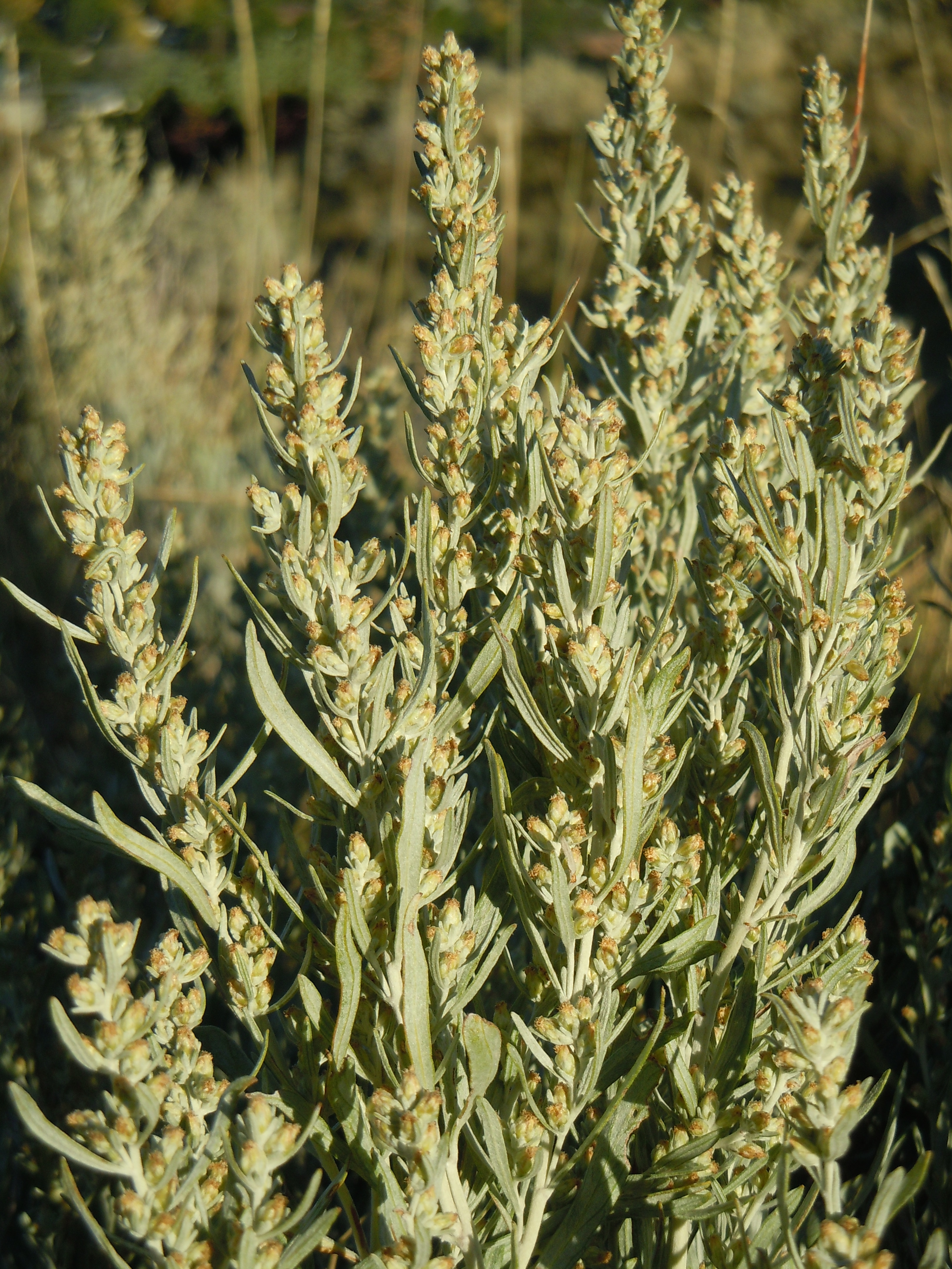 The inflorescences of Artemisia cana include well developed bracts.